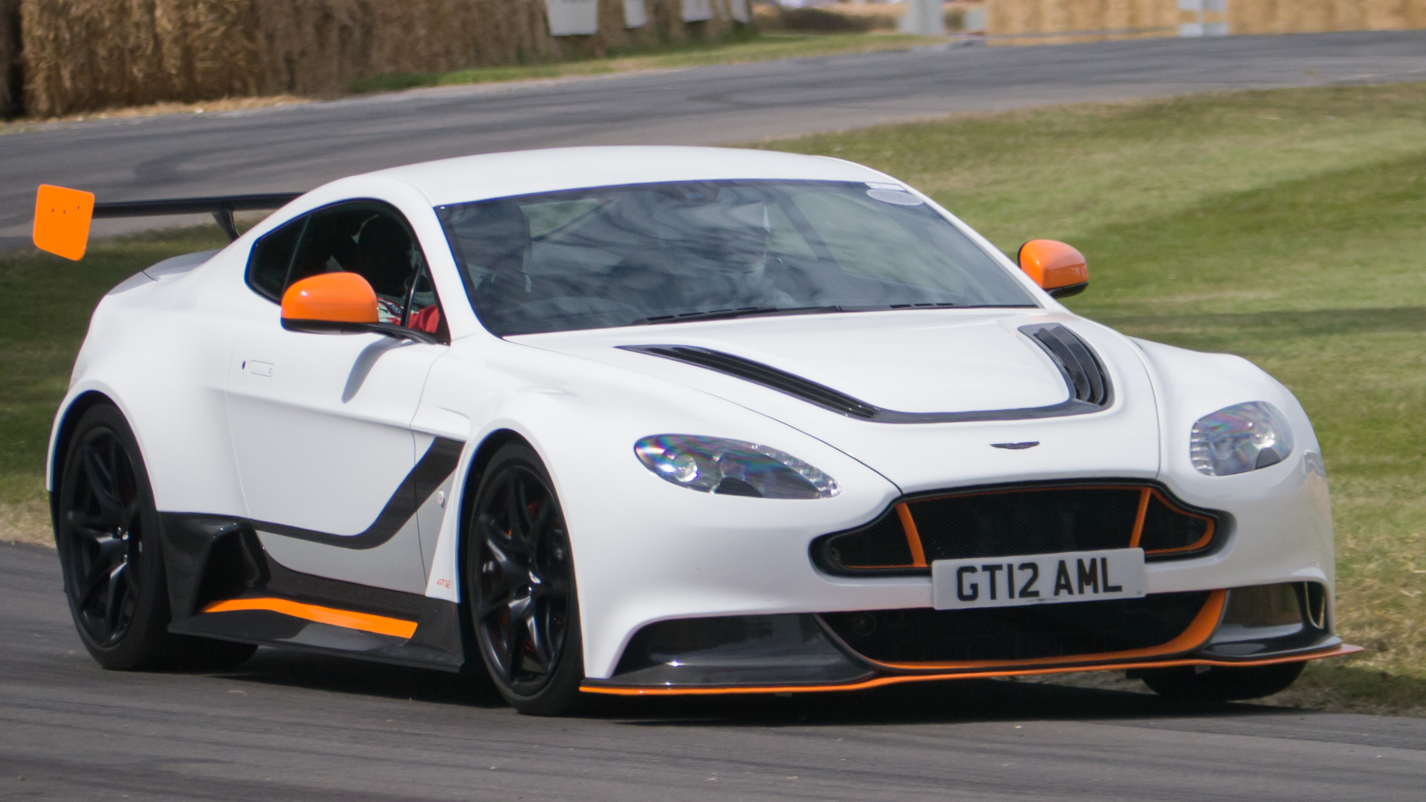 2015 Aston Martin GT 12